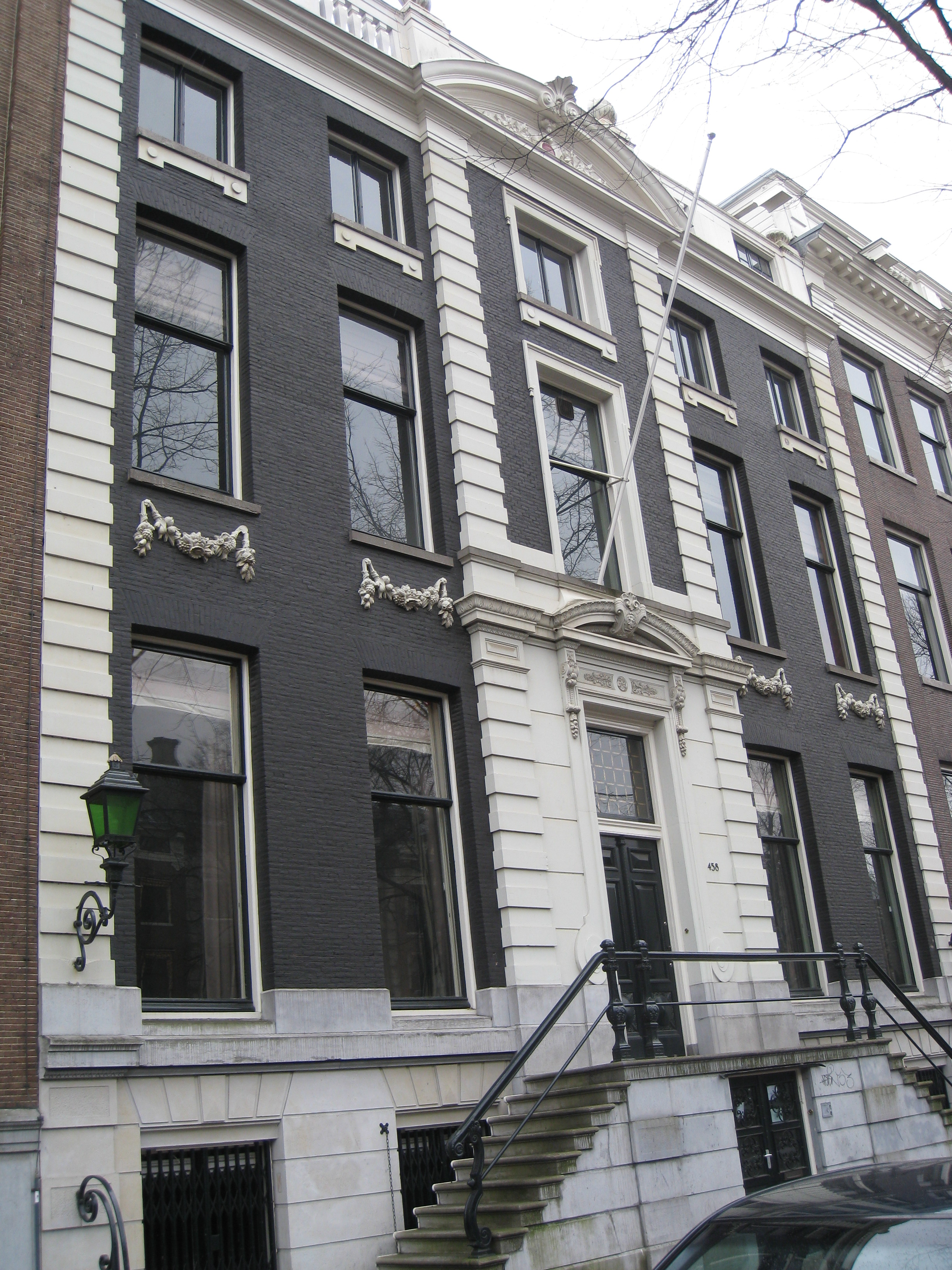 Herengracht 458, Amsterdam